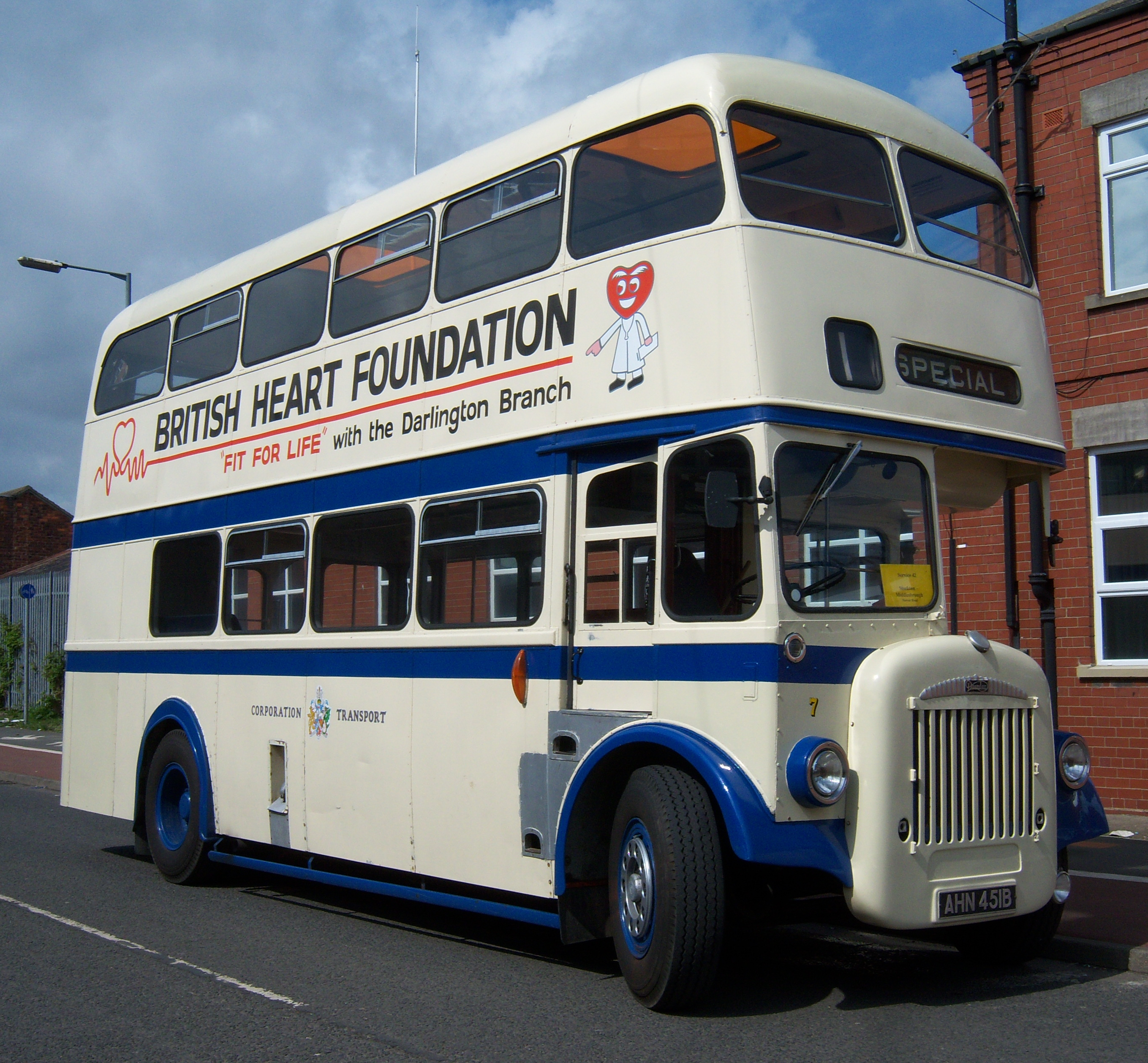 Preserved Darlington Corporation bus 7 (reg. AHN 451B), a 1964 Daimler CCG5 double-decker with Roe bodywork, pictured at the 2012 Teeside Running Day. It's parked on Vulcan Street facing east (see the rally categories for further operational/location details).